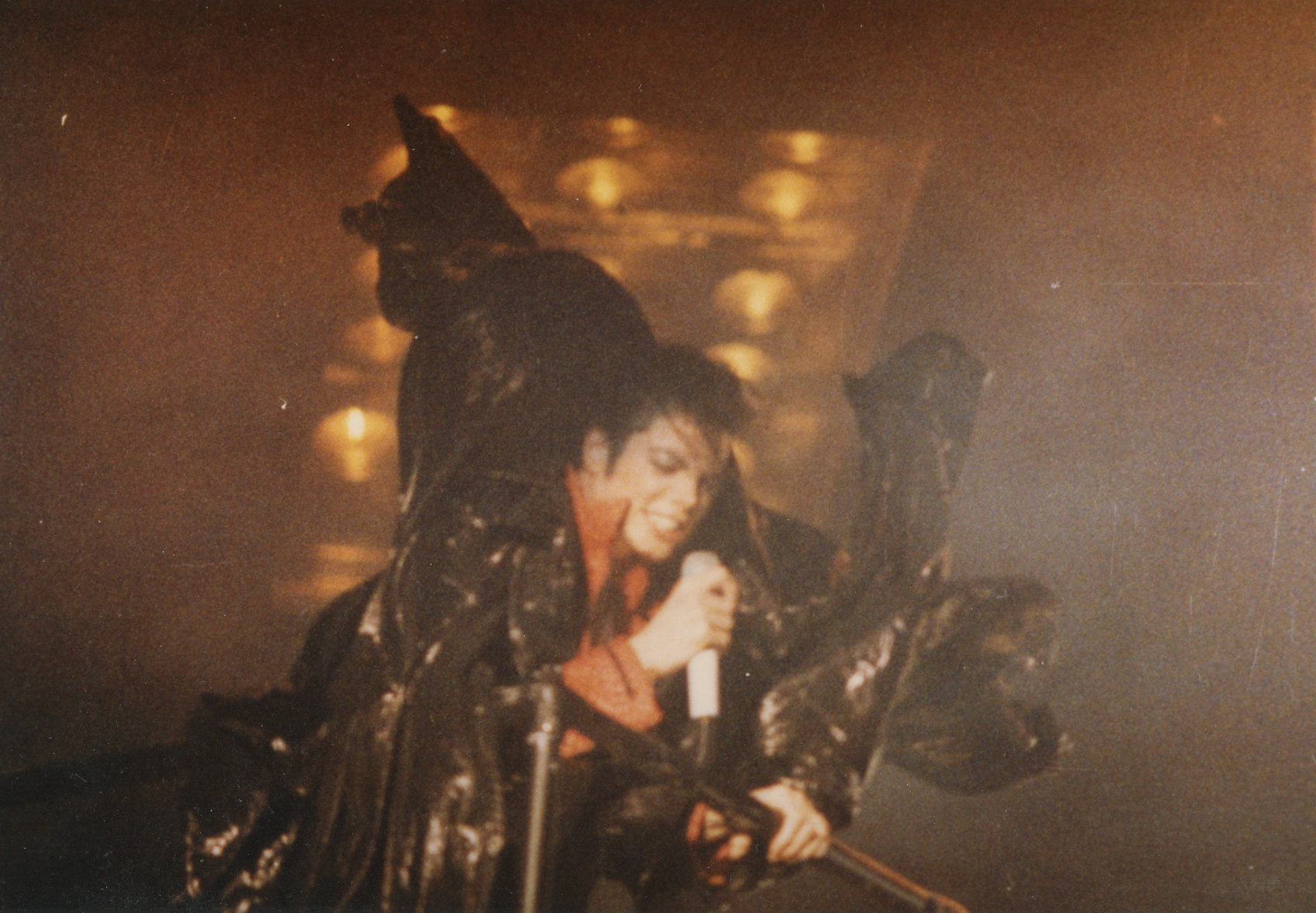 Michael Jackson live "Dangerous Tour" in Monza (Italy) 06/07/1992